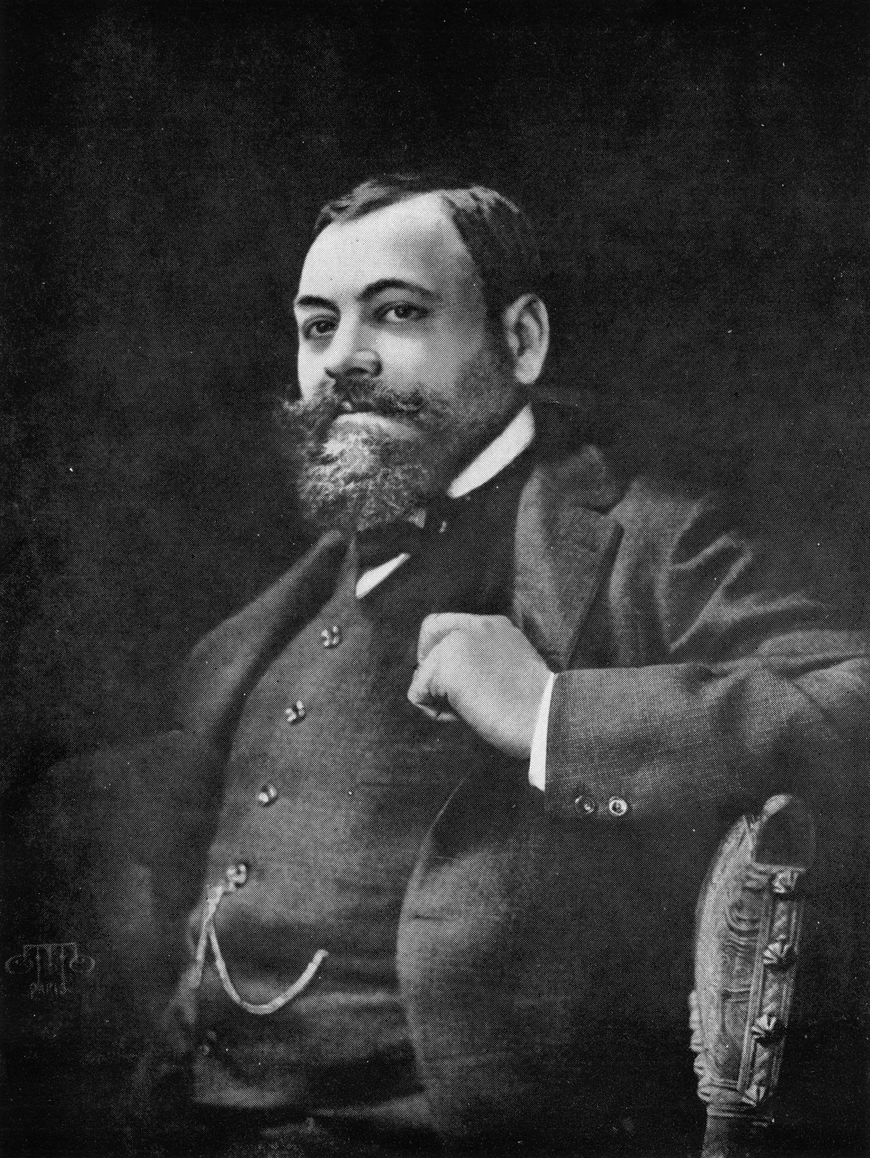 Portrait photograph of perfumer Paul Parquet (1856-1916), creator of Fougère Royale, Le Parfum Idéal, Coeur de Jeannette, etc. for Houbigant